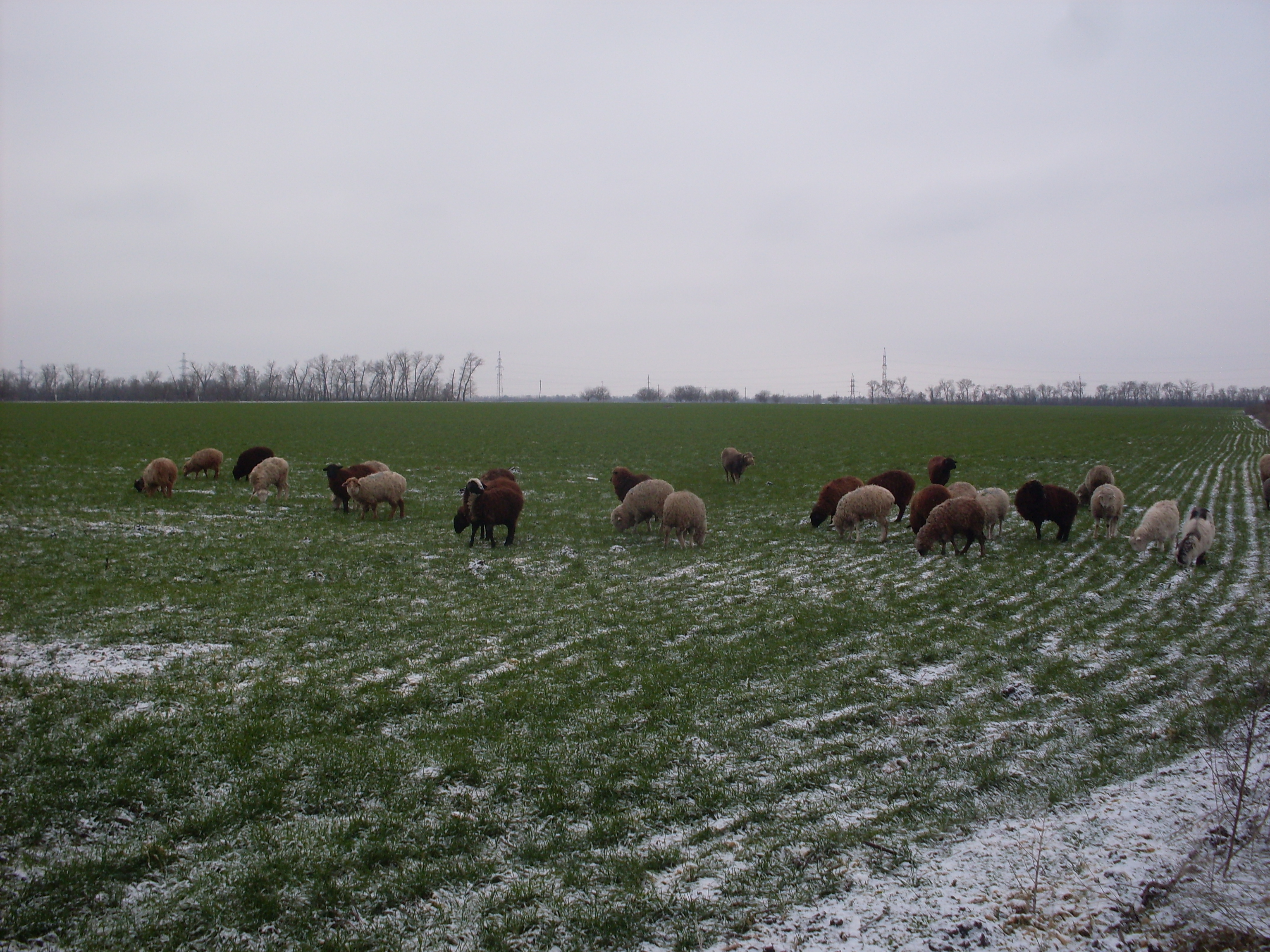 Sheeps near Bataysk, Rostov oblast, Russia